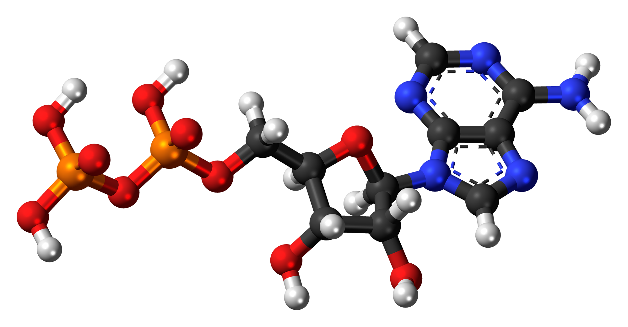 Ball-and-stick model of the adenosine diphosphate molecule, also known as ADP, a nucleotide used to make ATP, and is the by-product when it is 'burned'. This image shows the electrically neutral form. Colour code: Carbon, C: black Hydrogen, H: white Oxygen, O: red Nitrogen, N: blue Phosphorus, P: orange